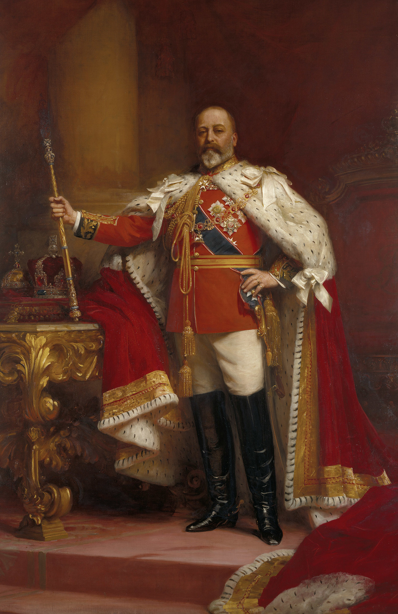 Portrait of King Edward VII